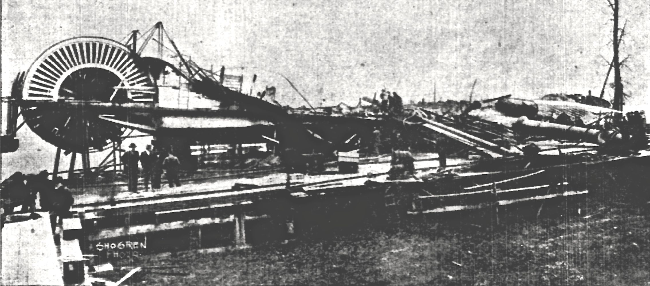 Steamer Regulator, burned on ways, at St. Johns, Oregon.